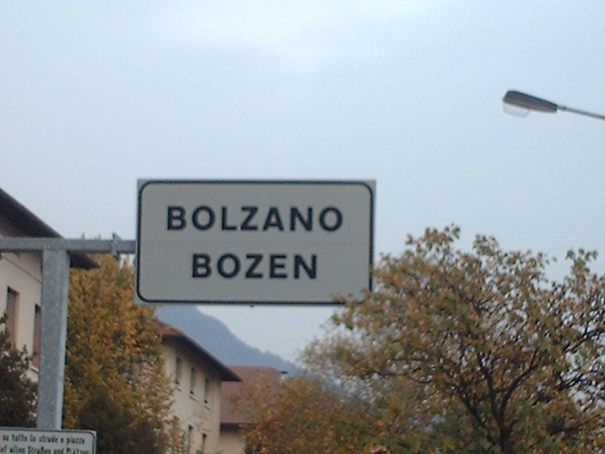 Picture by Skafa